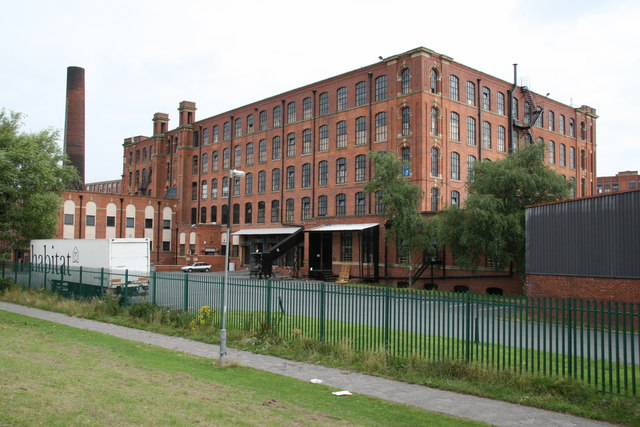 Brook No. 2 Mill, Hollinwood. 1883 built spinning mill. Now in the ownership of "Trendsetter". The rectangular two story building is the converted engine house. 1100 hp George Saxon engine. Shape is in keeping with a horizontal four cylinder layout and it may well have been gear drive judging by its geometry and the date. There is a truncated chimney. The Mill practically overlaps Durban and is very close to Heron (q.v.)